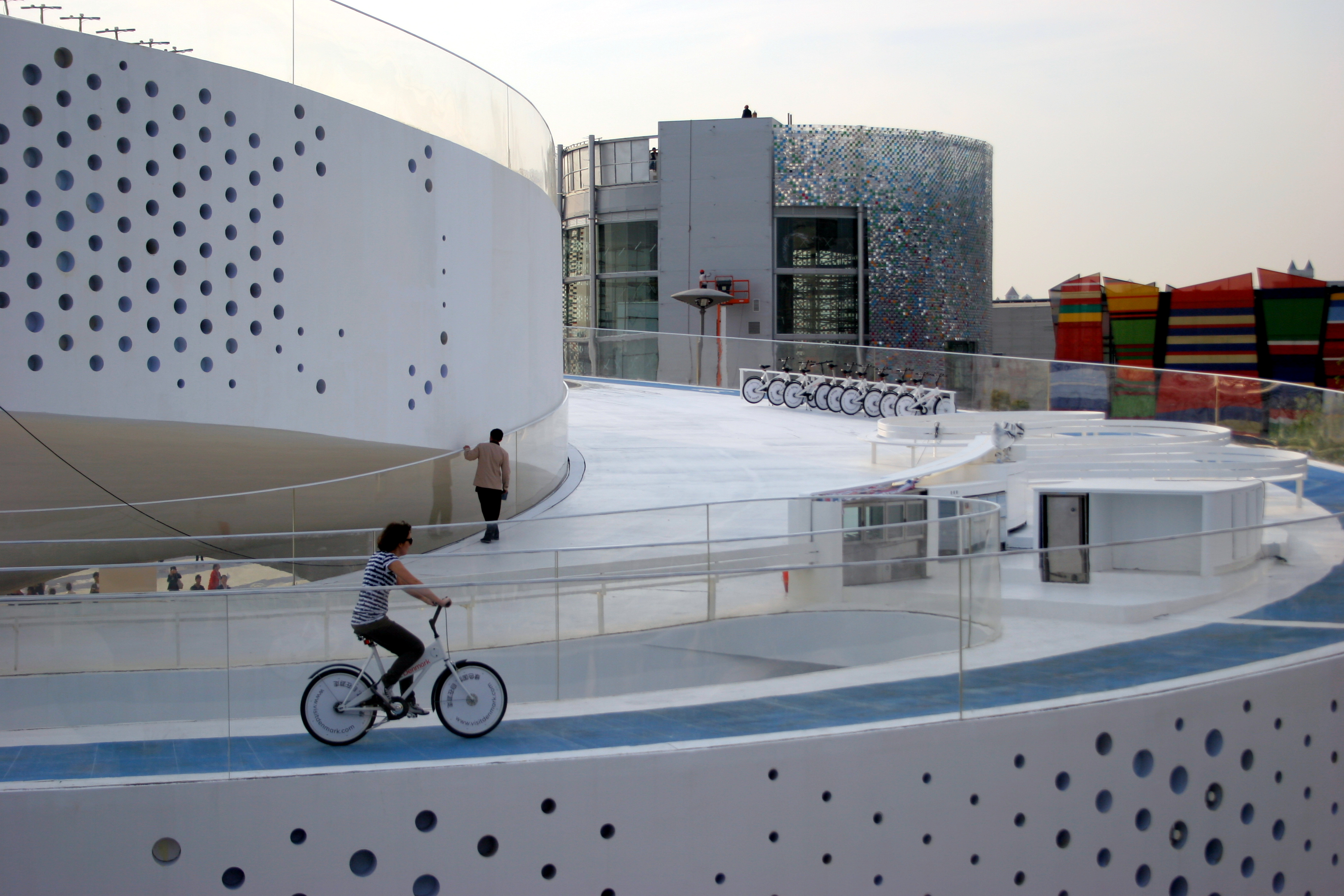 Denmark Pavilion of Expo 2010